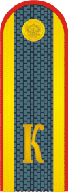 Rang insignia of the Russian Police, here shoulder strap of the "Kursant".